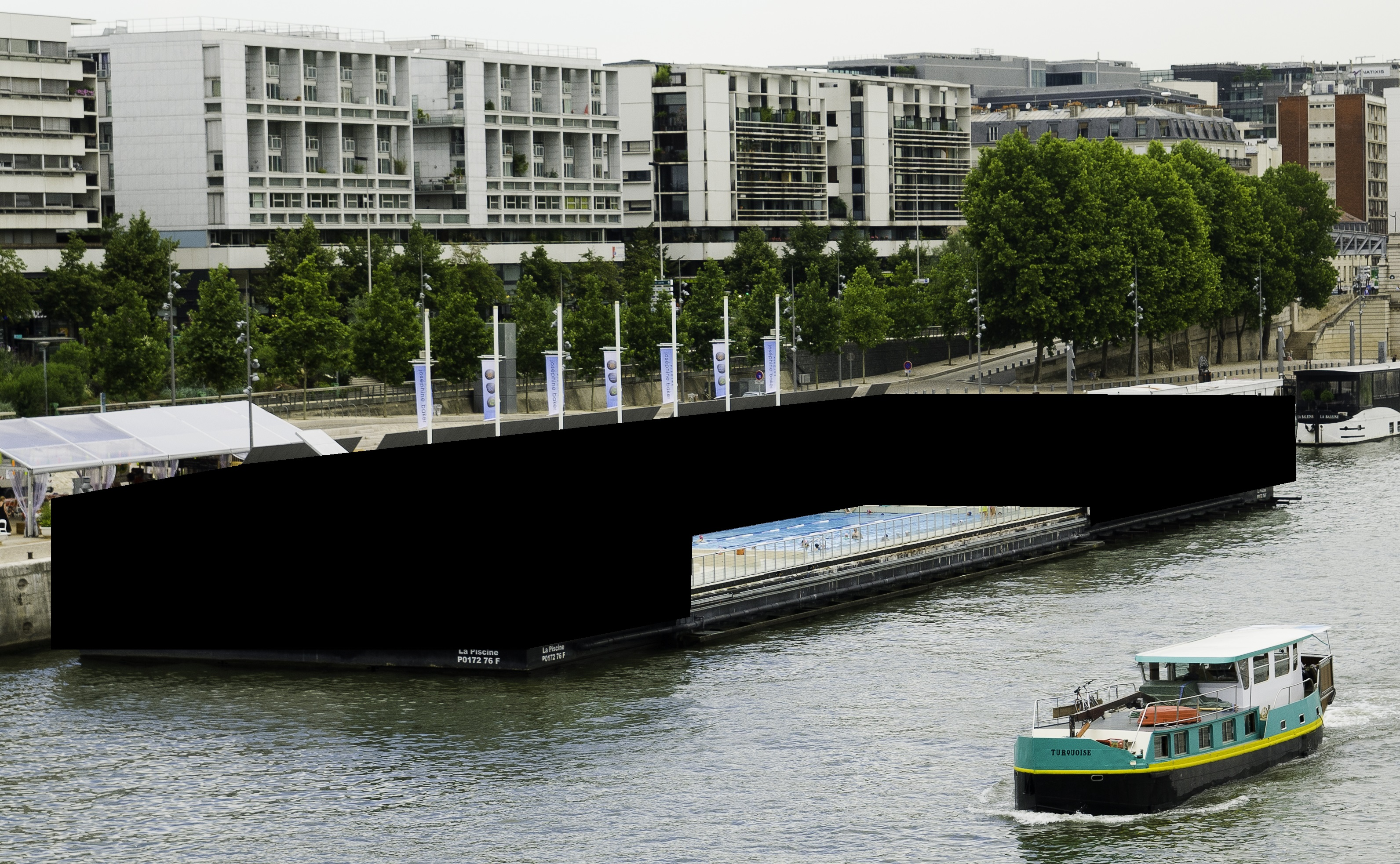 Joséphine Baker parisian swimming pool